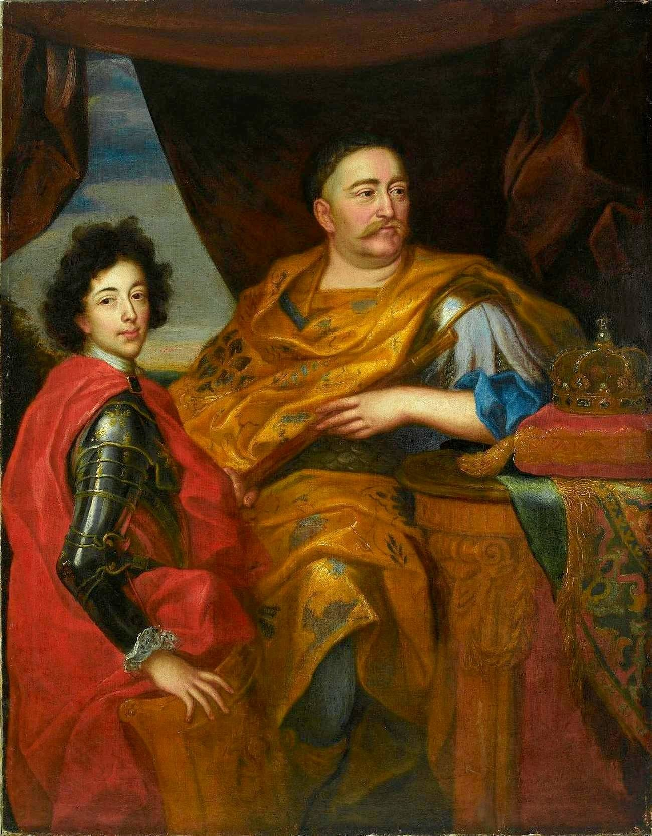 Pendant of Marie Casimire with her daughter.